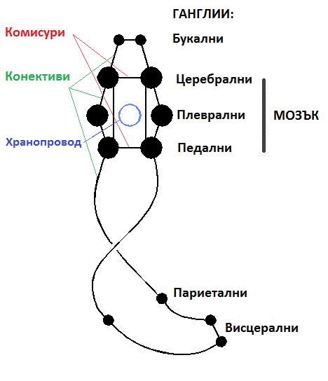 Gastropod nervous system